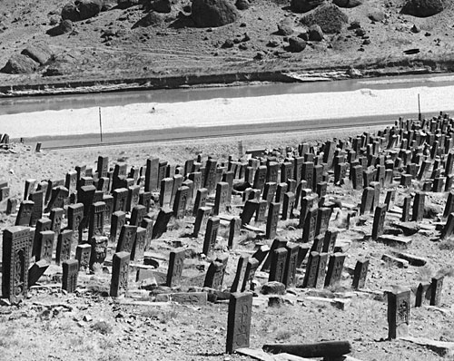 Photograph of khachkars from Julfa, Nakhichevan, Azerbaijan by A. Ayvazyan